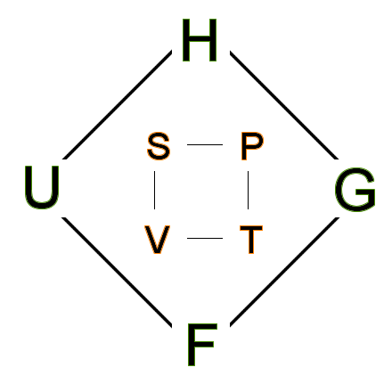 Thermodynamic mnemonic square by Ji-Cheng Zhao. for usage.